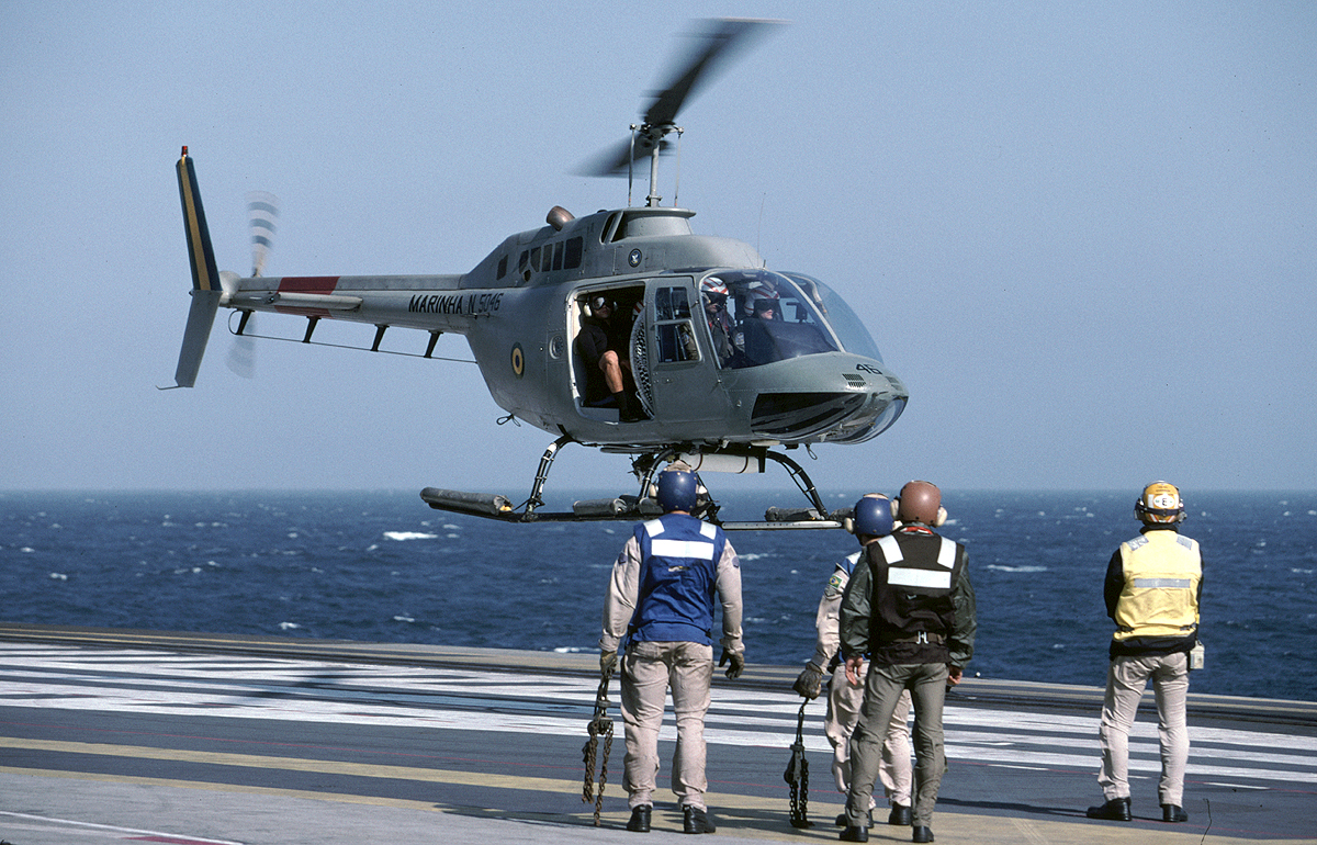 Bell 206 Jet Ranger with divers on board, acting as 'plane guard'